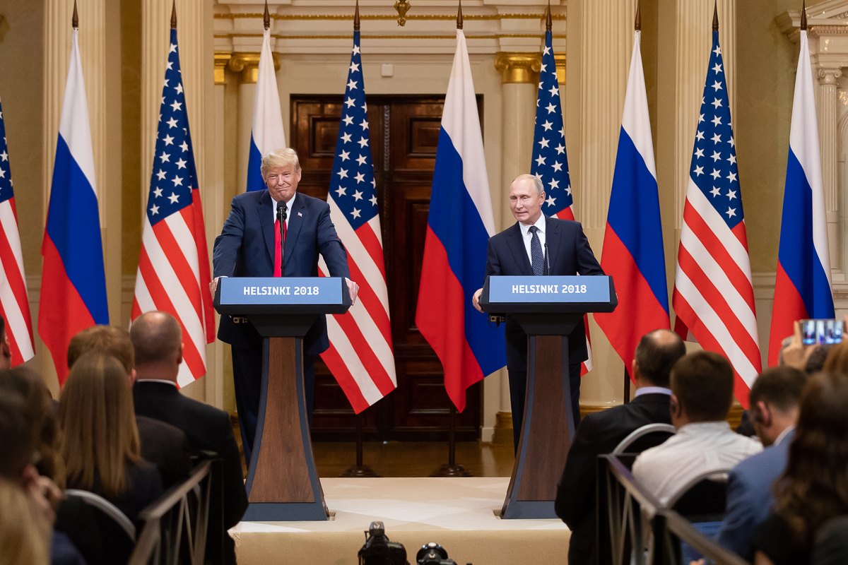 President Donald J. Trump and President Vladimir Putin of the Russian Federation hold a joint press conference / July 16, 2018 (Official White House Photo by Andrea Hanks)